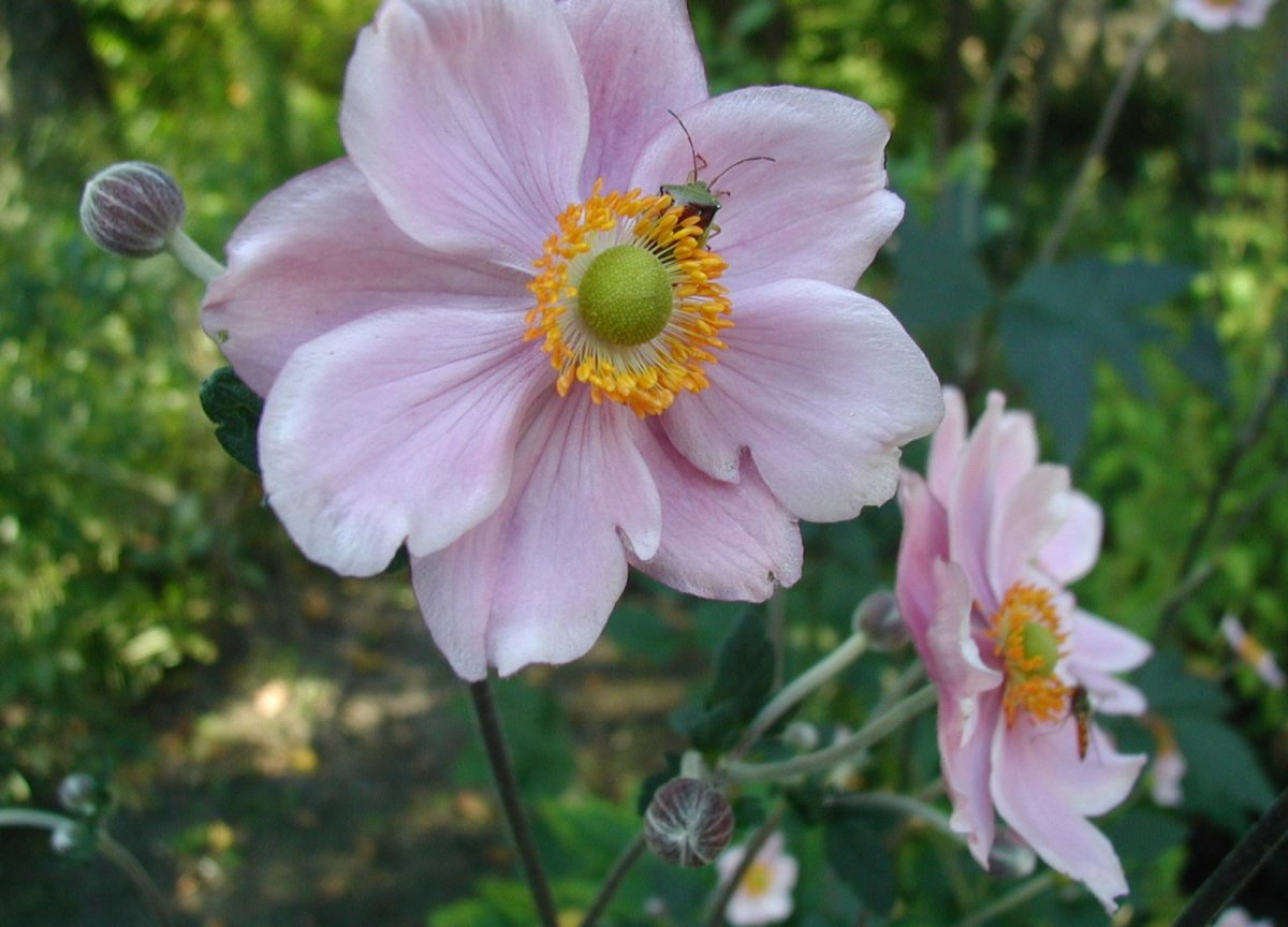 Anemone hupehensis flowers.